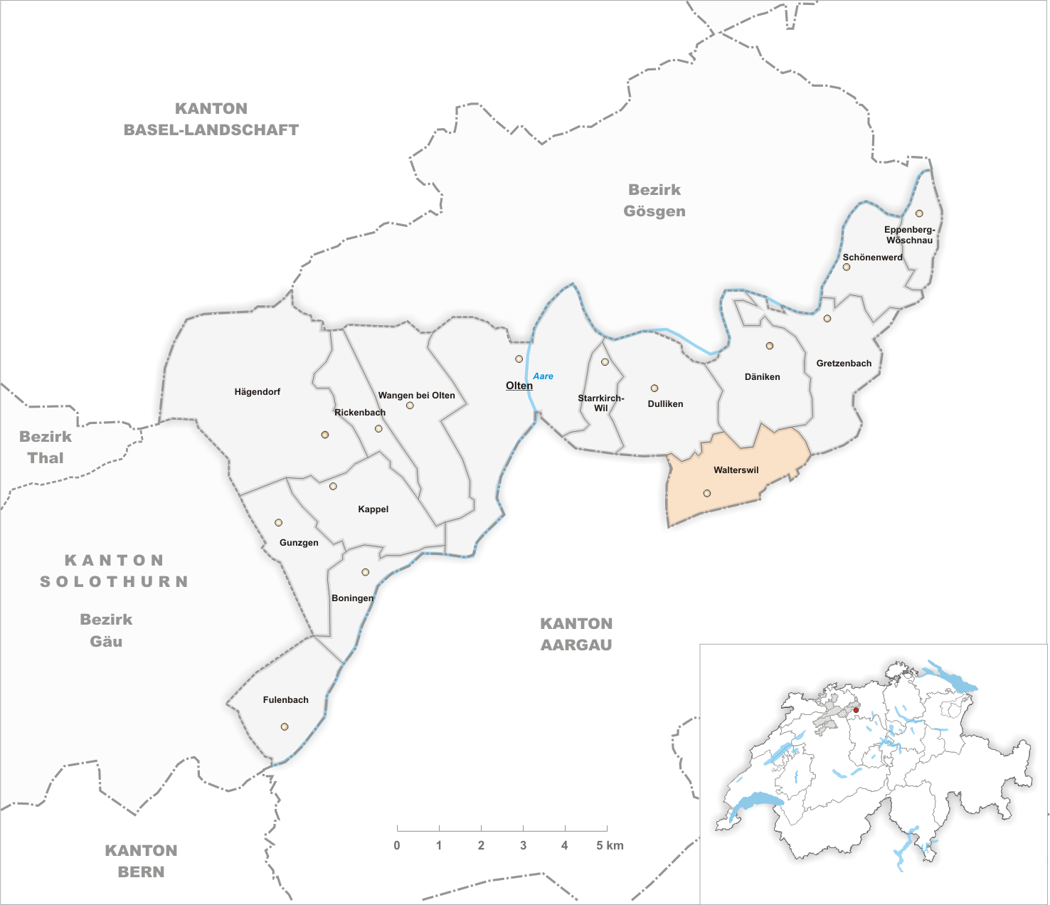 Municipality Walterswil